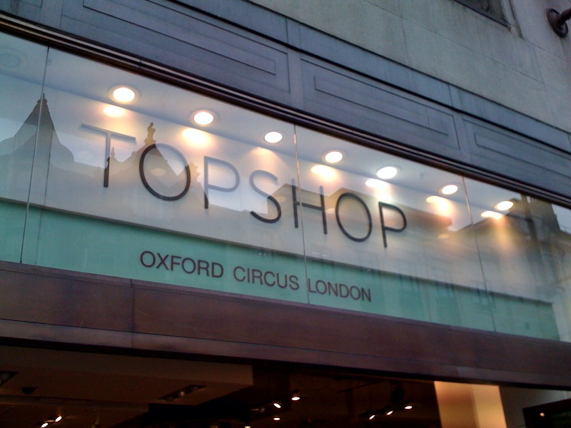 Top Shop storefront in Oxford Street, London, UK